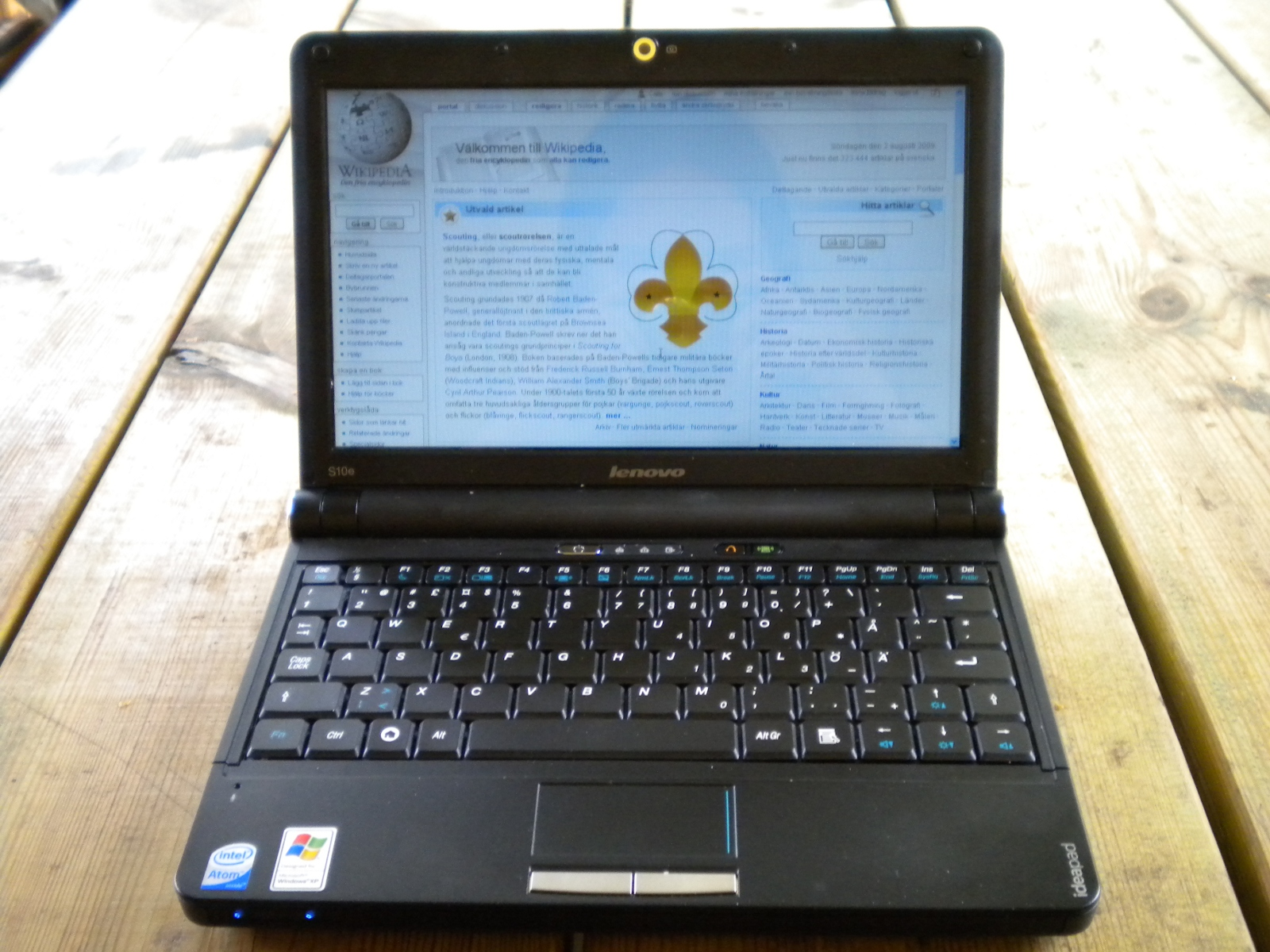 A Lenovo IdeaPad S10e with Swedish keyboard.